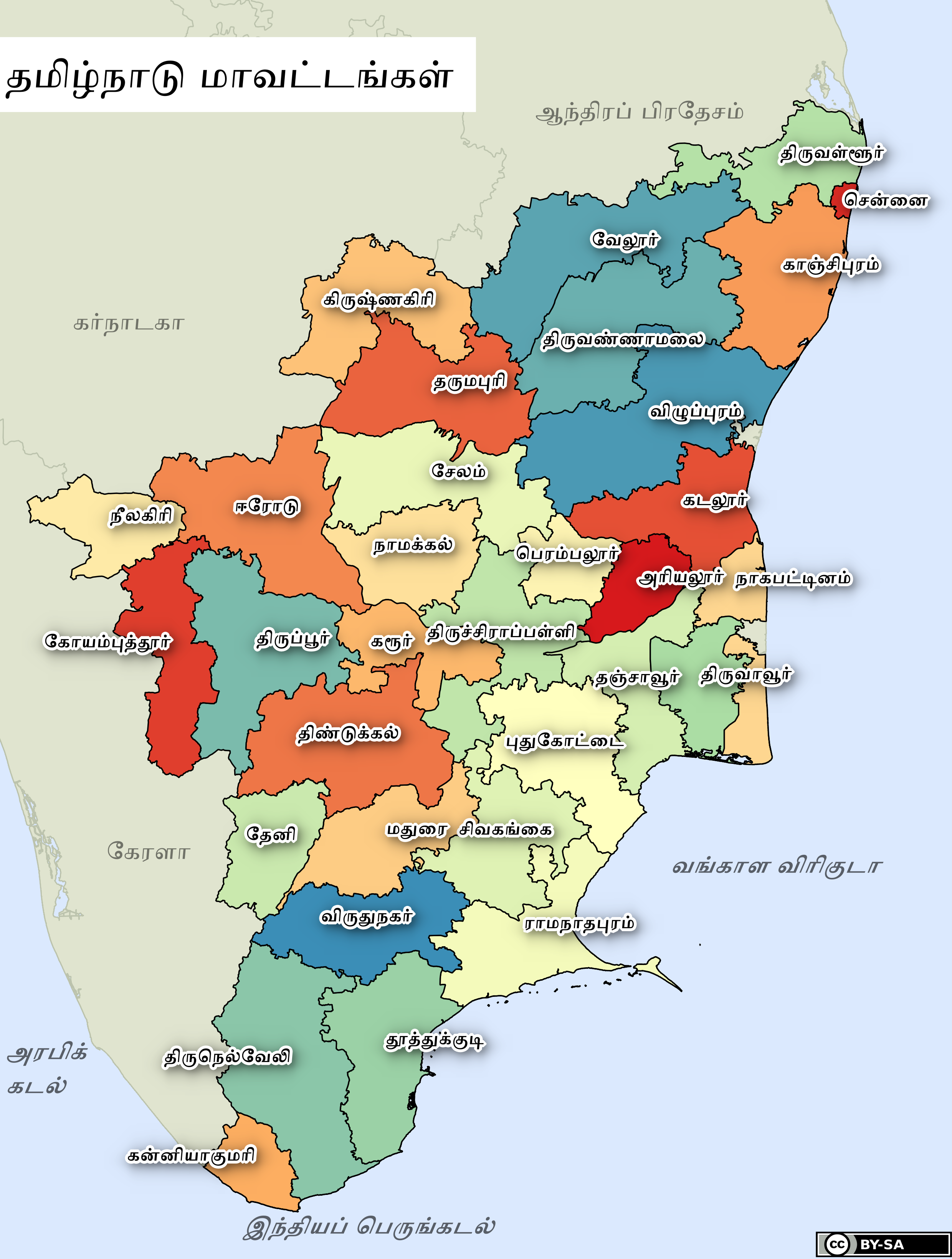 Map showing districts of Tamilnadu - generated using QGIS 2.0